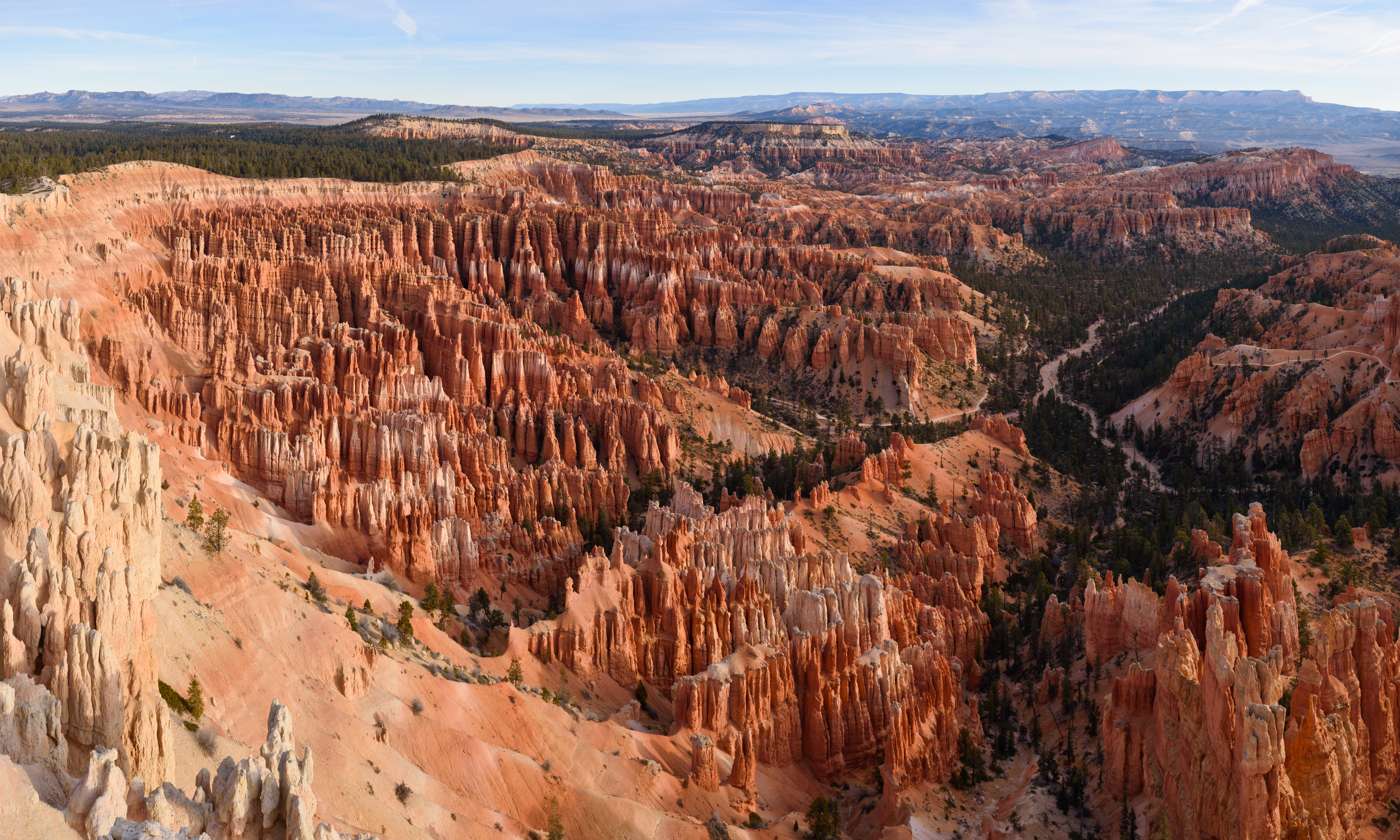 Four-segment panorama of Inspiration Point, Bryce Canyon National Park.